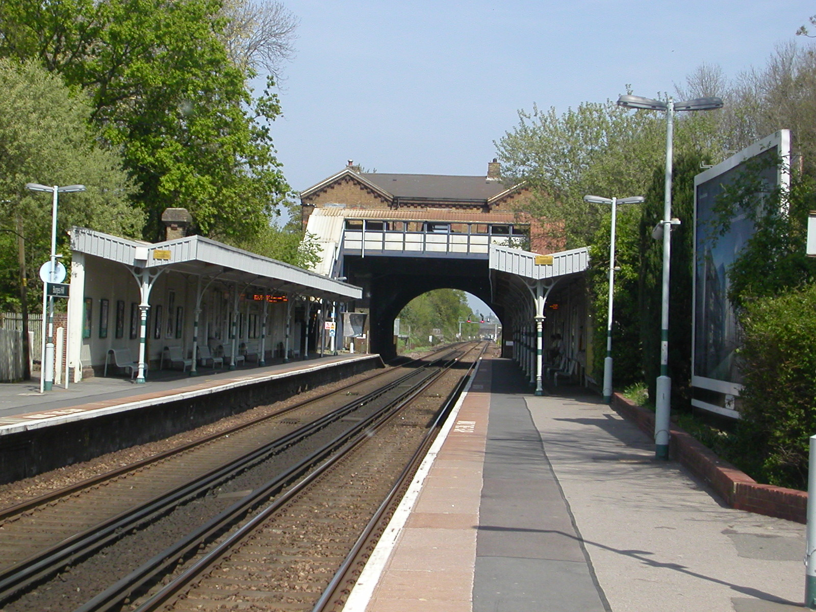 Overall view of Burgess Hill station, looking north from Platform 2. Photographed on 21st April 2007.